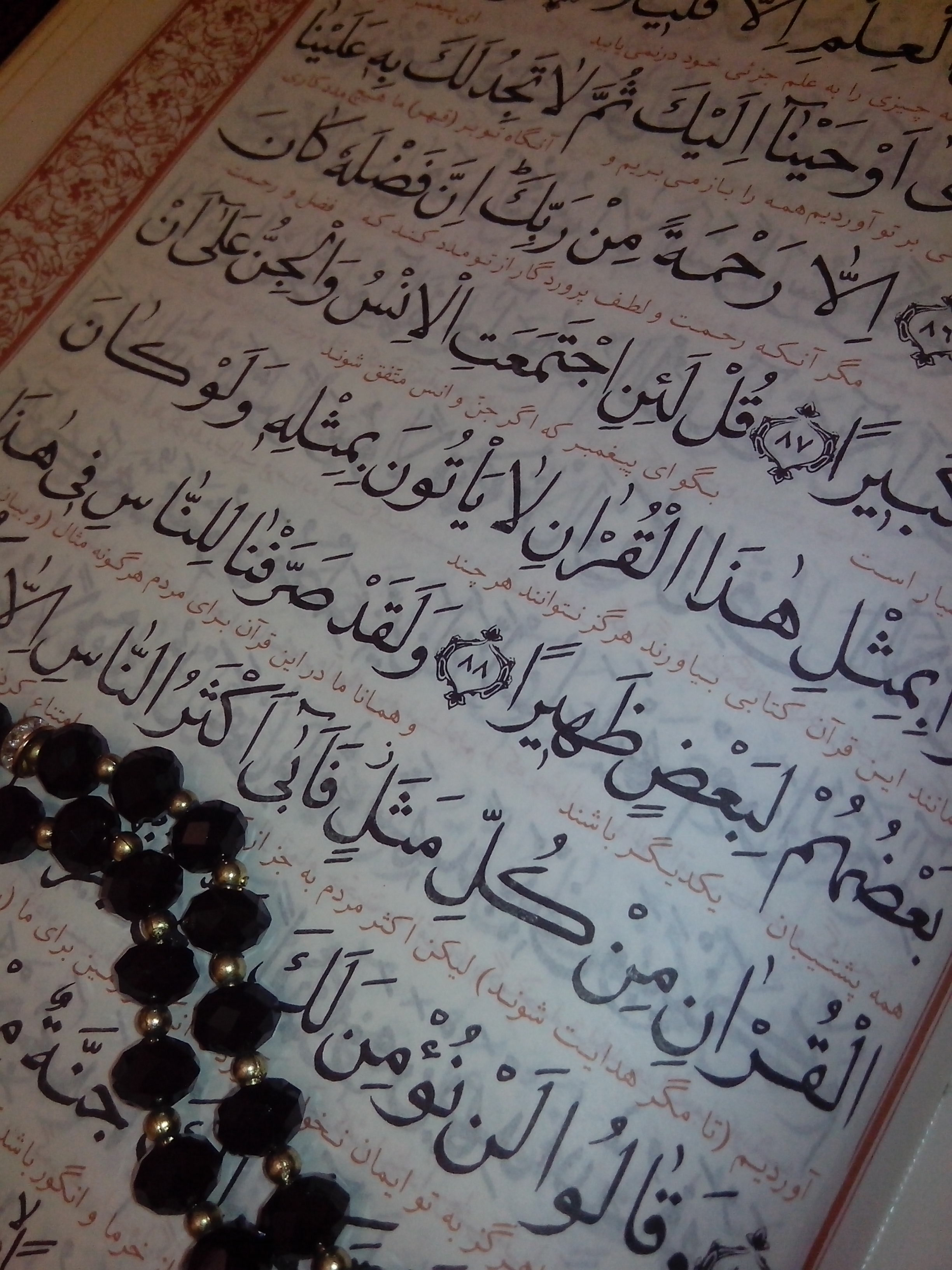 The challenge of the Quran or Tahadi (Arabic:تحدی ) is called to inviting to challenge in Islamic theology.